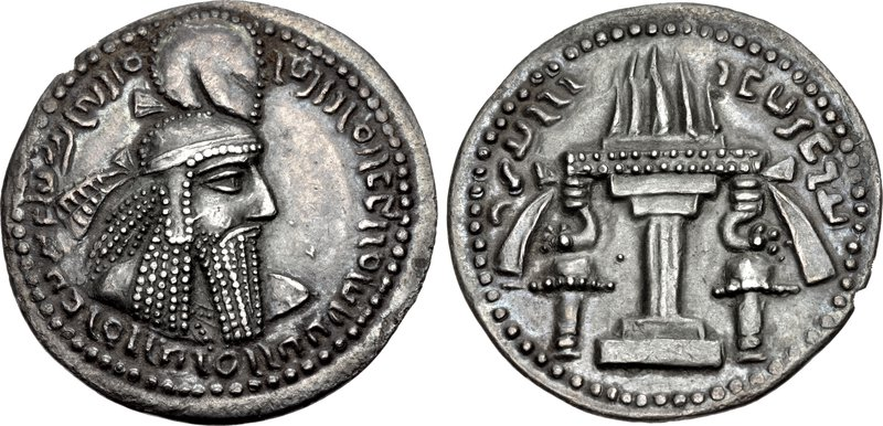 SASANIAN KINGS. Ardaxšīr (Ardashir) I. AD 223/4-240. AR Drachm (26mm, 4.34 g, 10h). Mint B ("Hamadan"). Phase 3, circa AD 233/4-238/9. Bust right, wearing diadem (type R) and close-fitting headdress with korymbos and earflaps / Fire altar (flames 3) with diadems (type R); no attendants, fluted altar shaft; pellet to left of altar shaft. SNS type IIIb(4a)/3b(2b); Göbl type III/2/2; Saeedi 69 var. (two pellets to left of left support and one pellet to right of right support); cf. Sunrise 714 (for rev.). Near EF, toned.